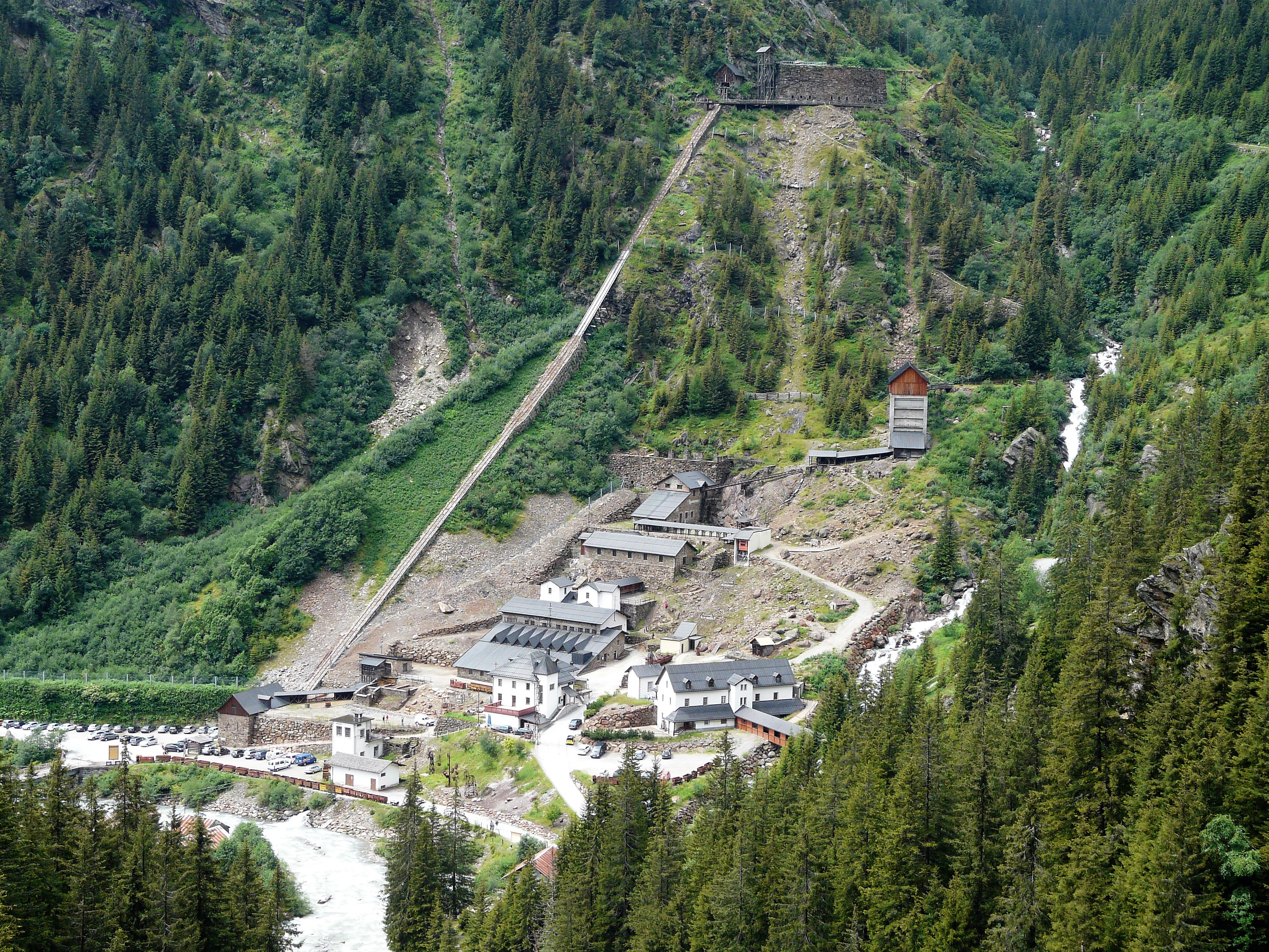 Mining Museum of South Tyrol. Ridnaun valley.